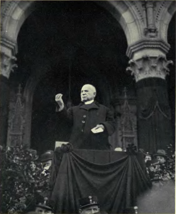 Father Janos Hock, president of the National Council, opening the revolutionary national assembly after the dissolution of the House of Commons and the Lords, Hungary late 1918.